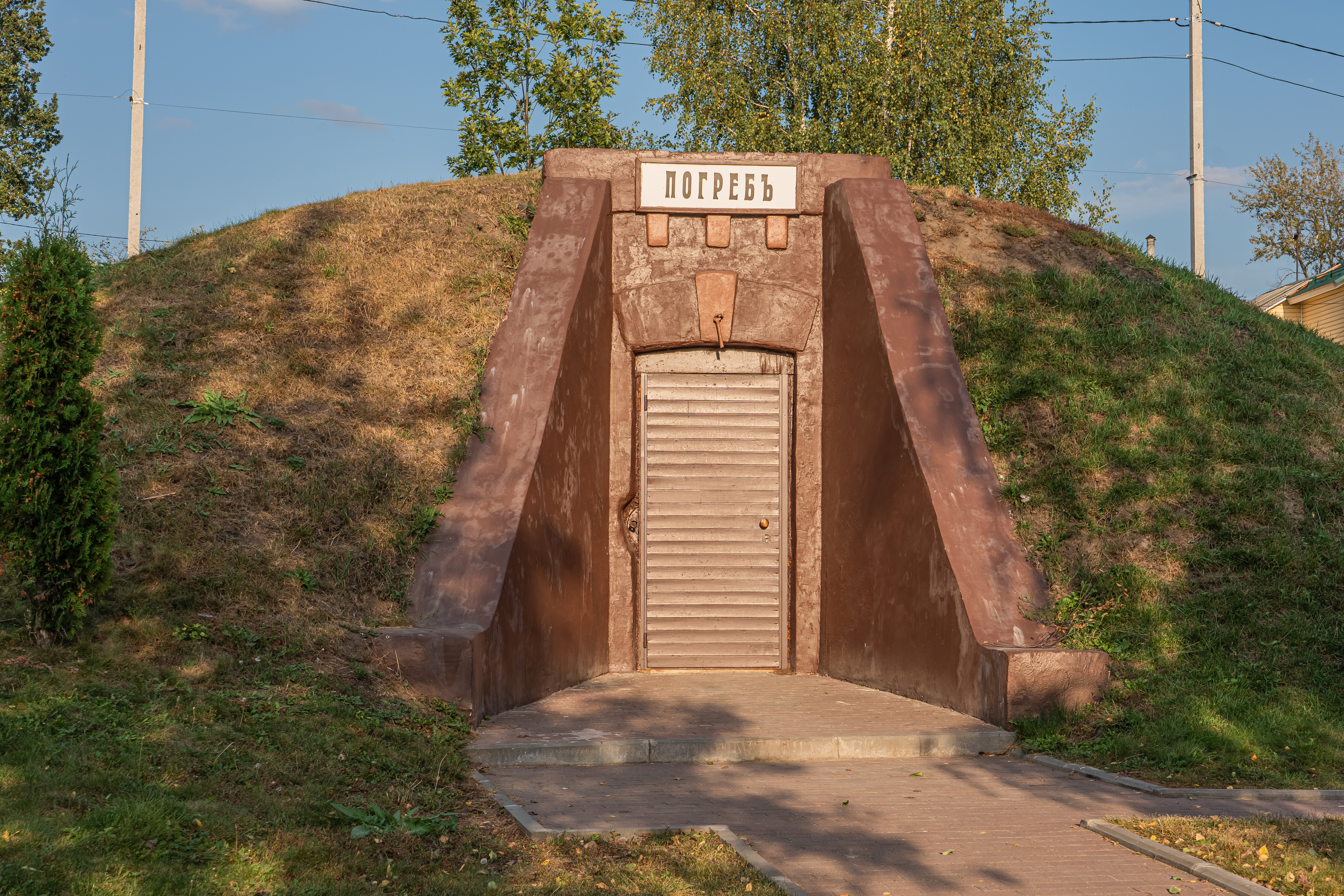 Yasnaya Polyana (or Kozlova Zaseka) railway station in the surroundings of Yasnaya Polyana estate near Tula, Russia